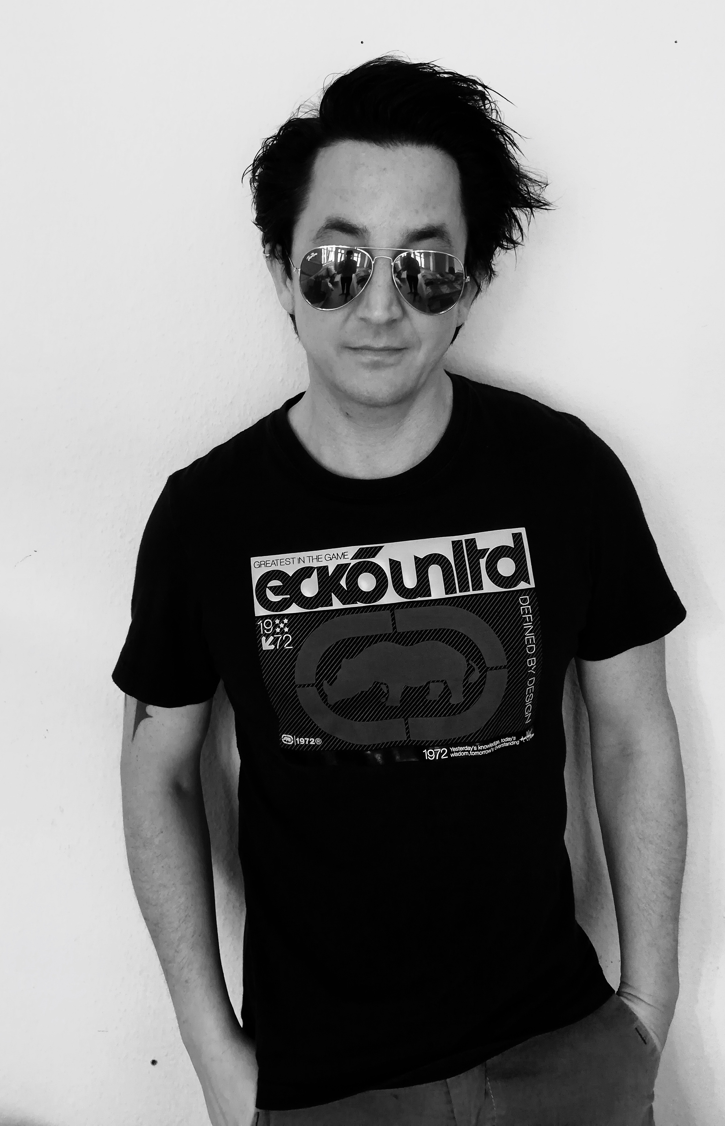 Bastian Harper 2019